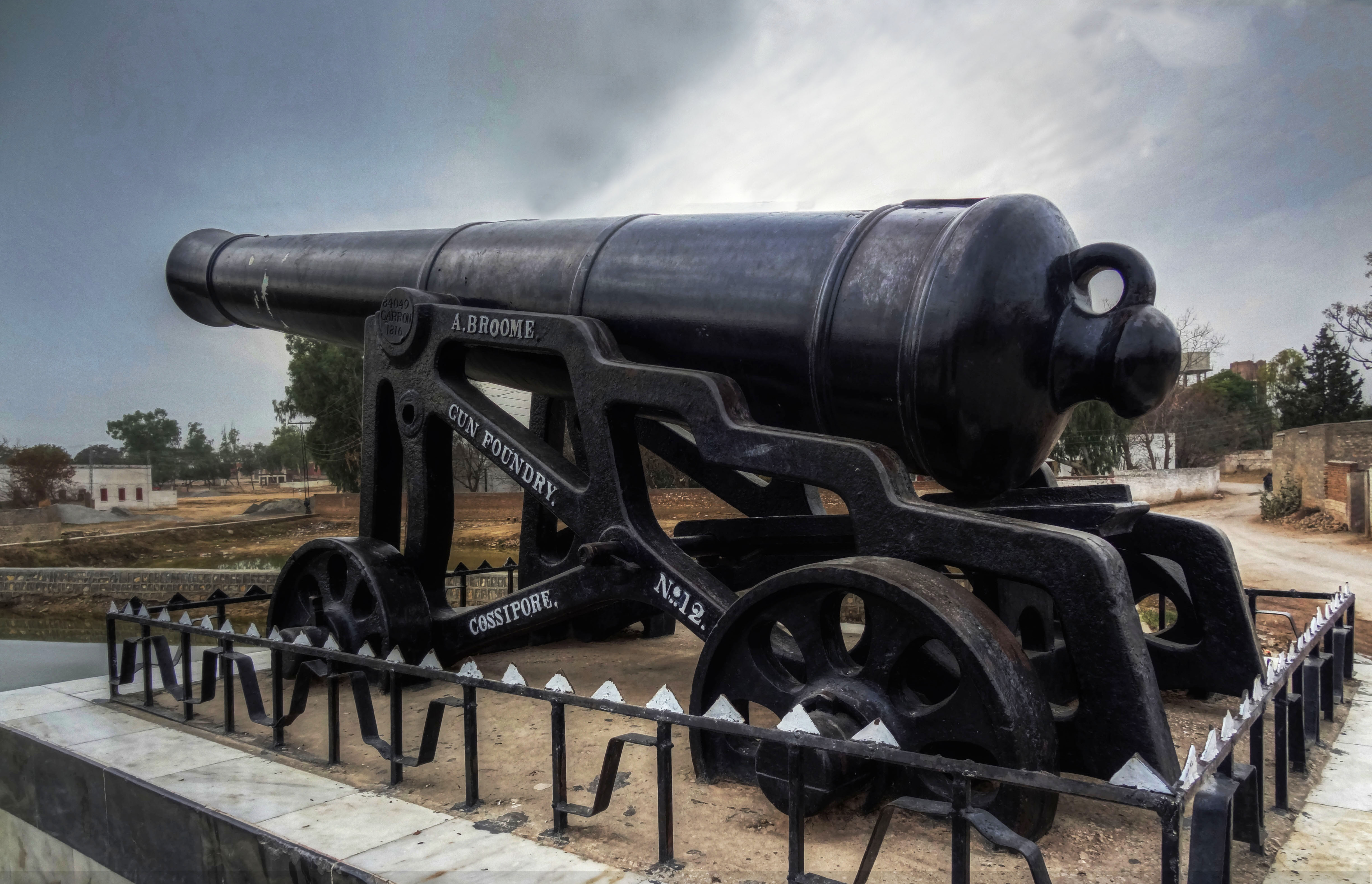 Canon Awarded by British Army World War II, Dulmial, Chakwal